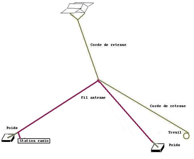 Kite carrying an "inverted-L" wire antenna, used for radio communications during the early days of radio